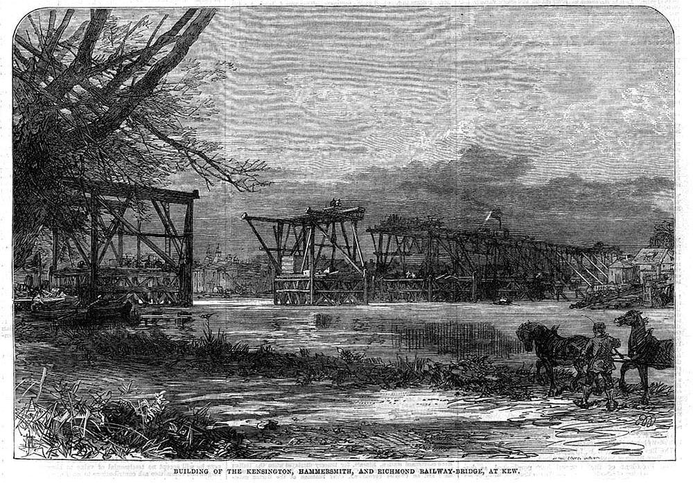 Temporary works for the construction of the Kew River Bridge over the Thames on the LSWR Hammersmith and Richmond line